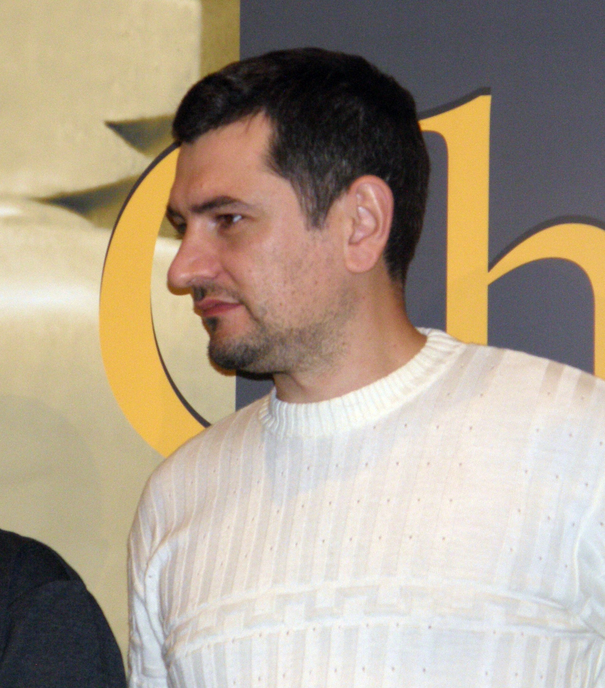 Viorel Bologan –grandmaster from Moldova.